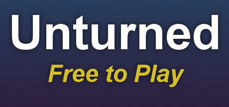 Logo for the Unturned video game on Steam.